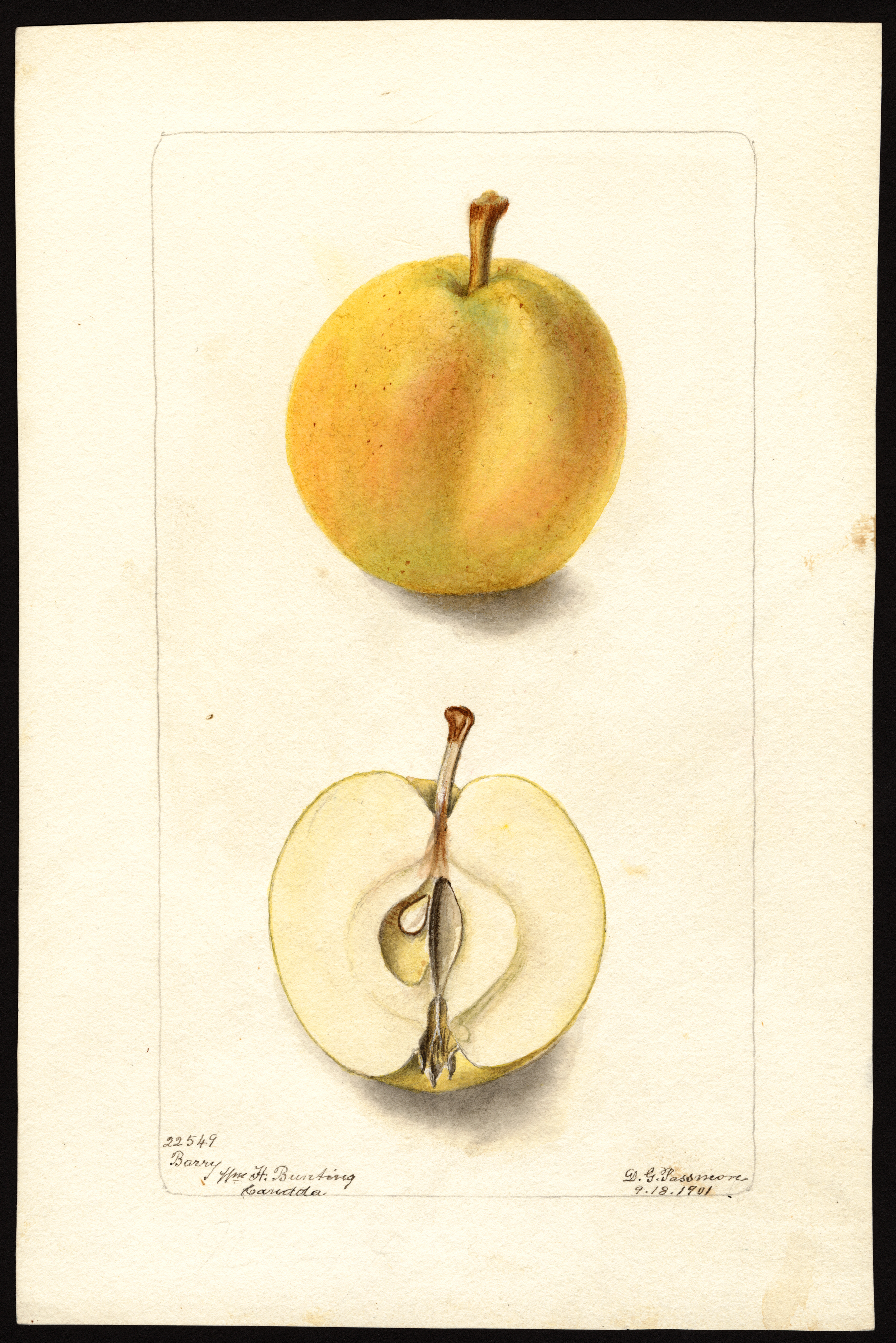 Image of the Barry variety of apples (scientific name: Malus domestica), with this specimen originating in Saint Catharines, Ontario, Canada. Source: U.S. Department of Agriculture Pomological Watercolor Collection. Rare and Special Collections, National Agricultural Library, Beltsville, MD 20705.